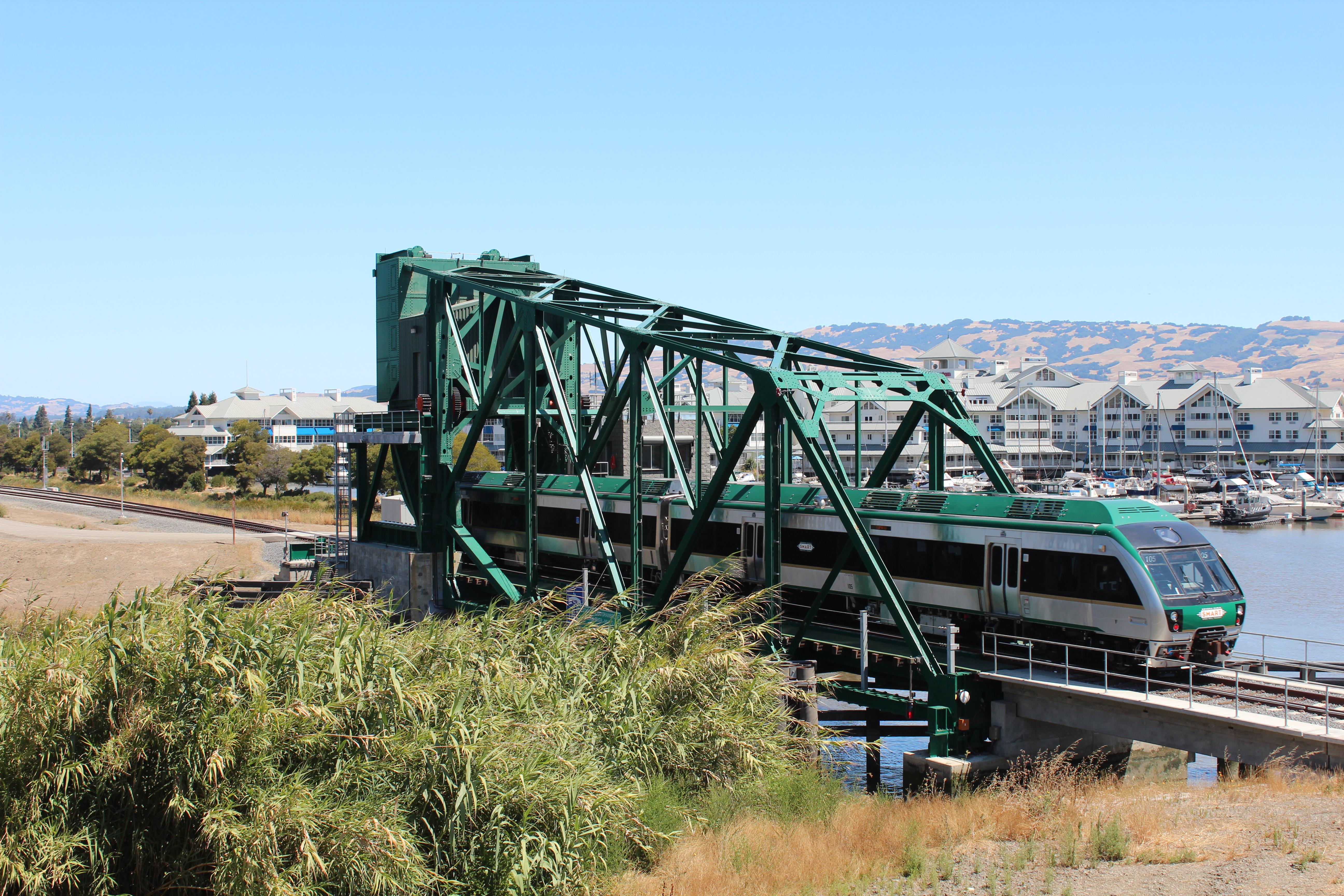 A SMART train crossing the Haystack Landing bridge traveling Northbound